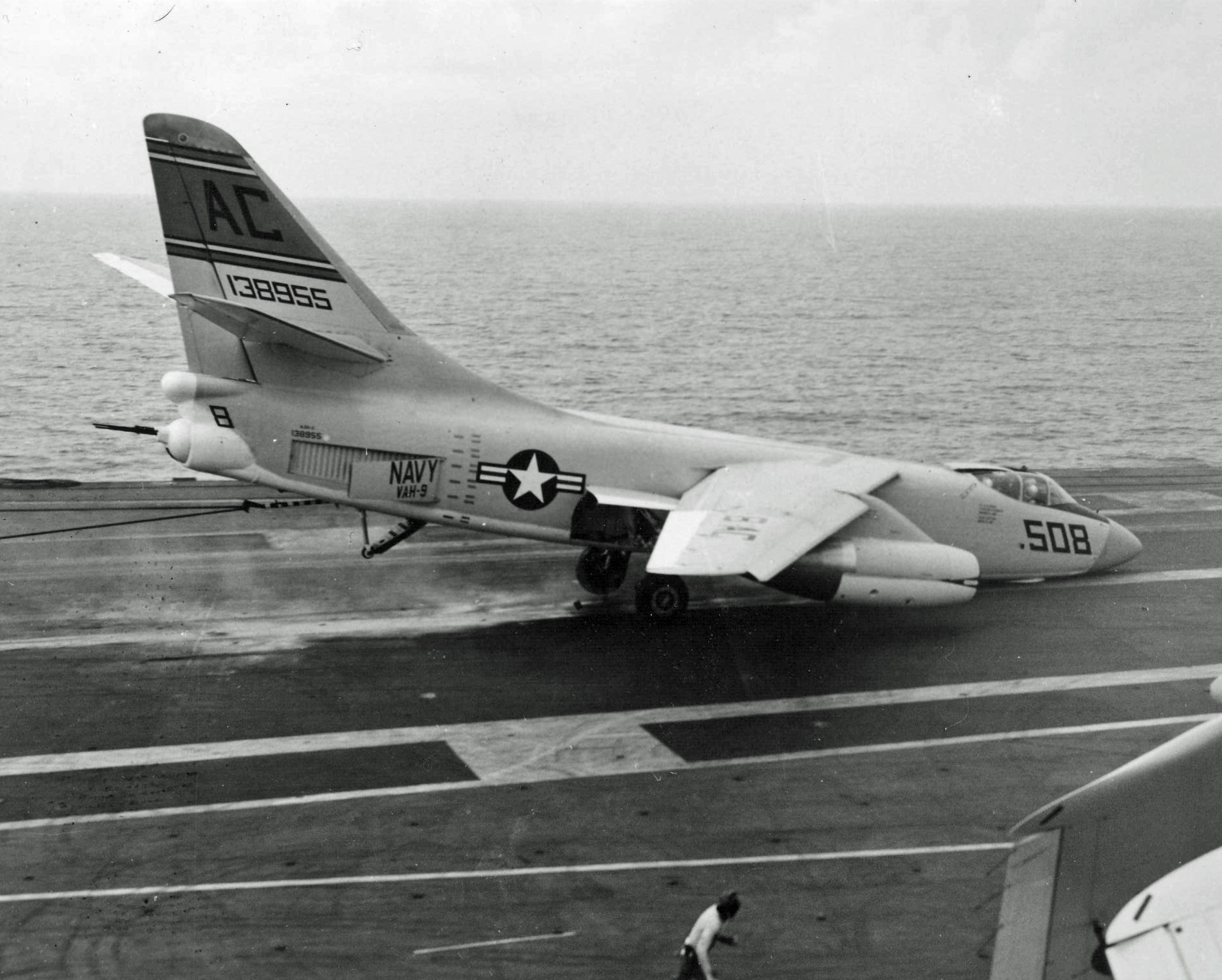 A U.S. Navy Douglas A3D-2 Skywarrior (BuNo 138955) of heavy attack squadron VAH-9 Hoot Owls pictured after its nose wheel collapsed during recovery on board the carrier USS Saratoga (CVA-60), 1959-1960. Note the open canopy. As a high altitude strategic bomber the A3D (after 1962 A-3) was not equipped with ejection seats and the crew was expected to jump off with parachutes in case of an emergency.